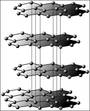 The relation of Graphene to Graphite.